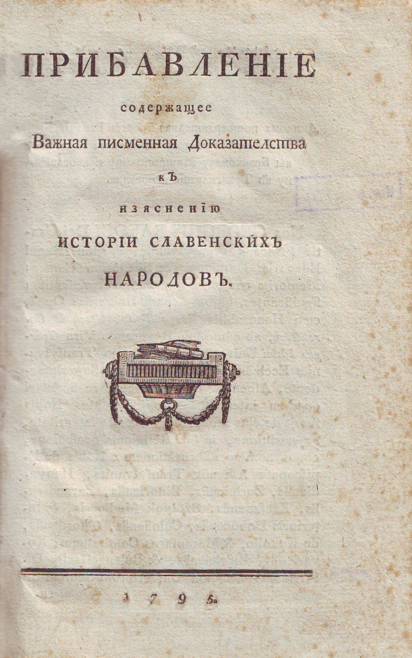 Cover of Pribavlenie soderžašćee Važnaja pismennaja Dokazatelstva k izjasneniju istorii slavenskih narodov (1795) by Jovan Rajić. Srpski (latinica): Naslovna strana Pribavlenie soderžašćee Važnaja pismennaja Dokazatelstva k izjasneniju istorii slavenskih narodov (1795) Jovana Rajića.